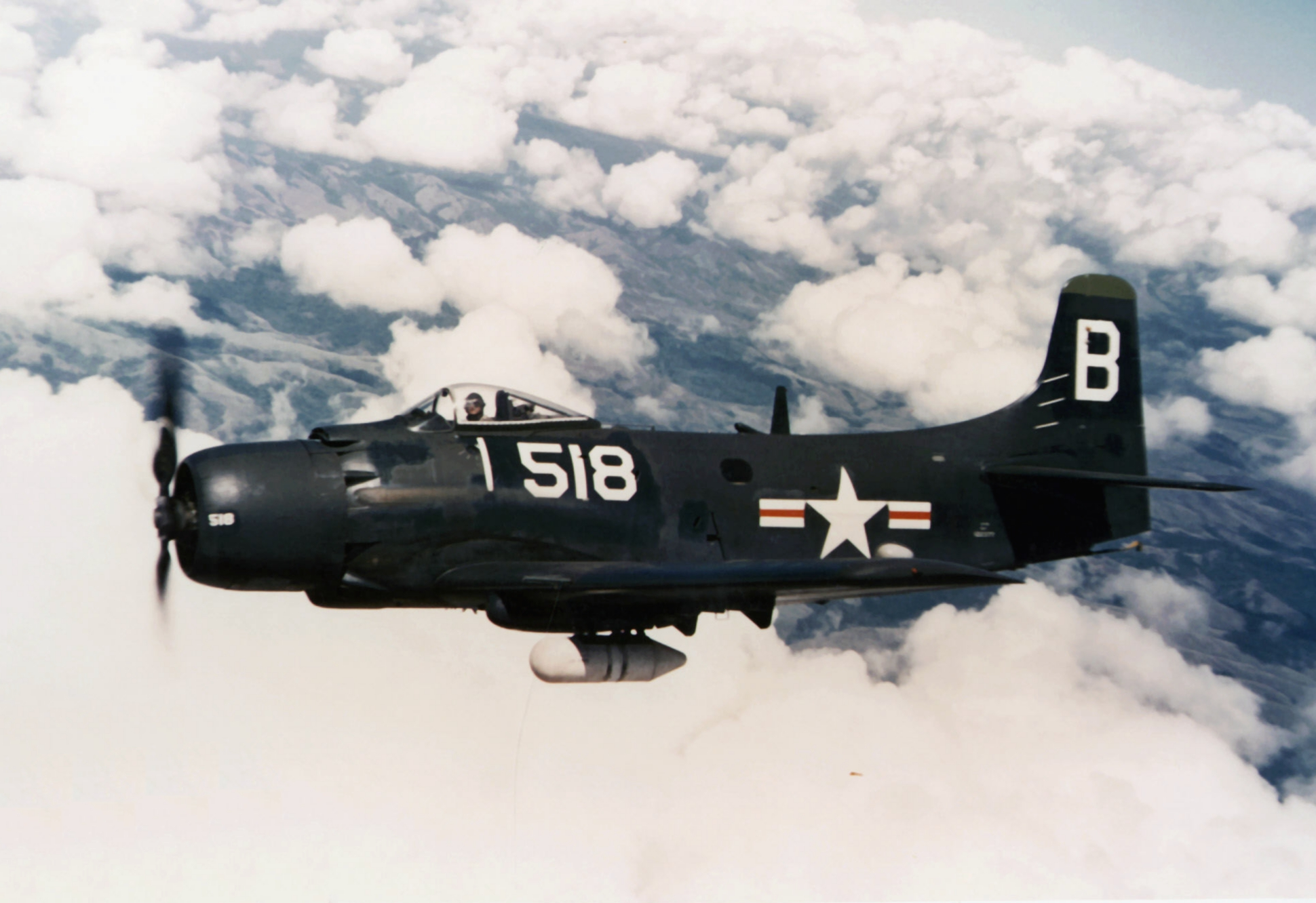 A U.S. Navy Douglas AD-2Q Skyraider of Attack Squadron VA-195 in flight in the western Pacific. VA-195 was assigned to Carrier Air Group 19 (CVG-19) aboard the aircraft carrier USS Boxer (CV-21) in 1949-50.